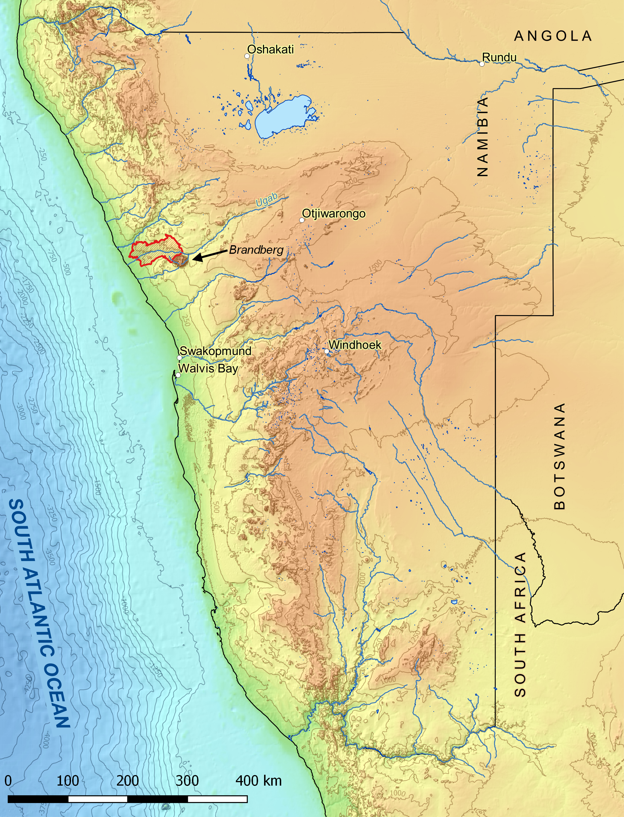 Map of physical geography of Namibia with the position of the outcrop of the Zerrissene Turbidite System highlighted in red